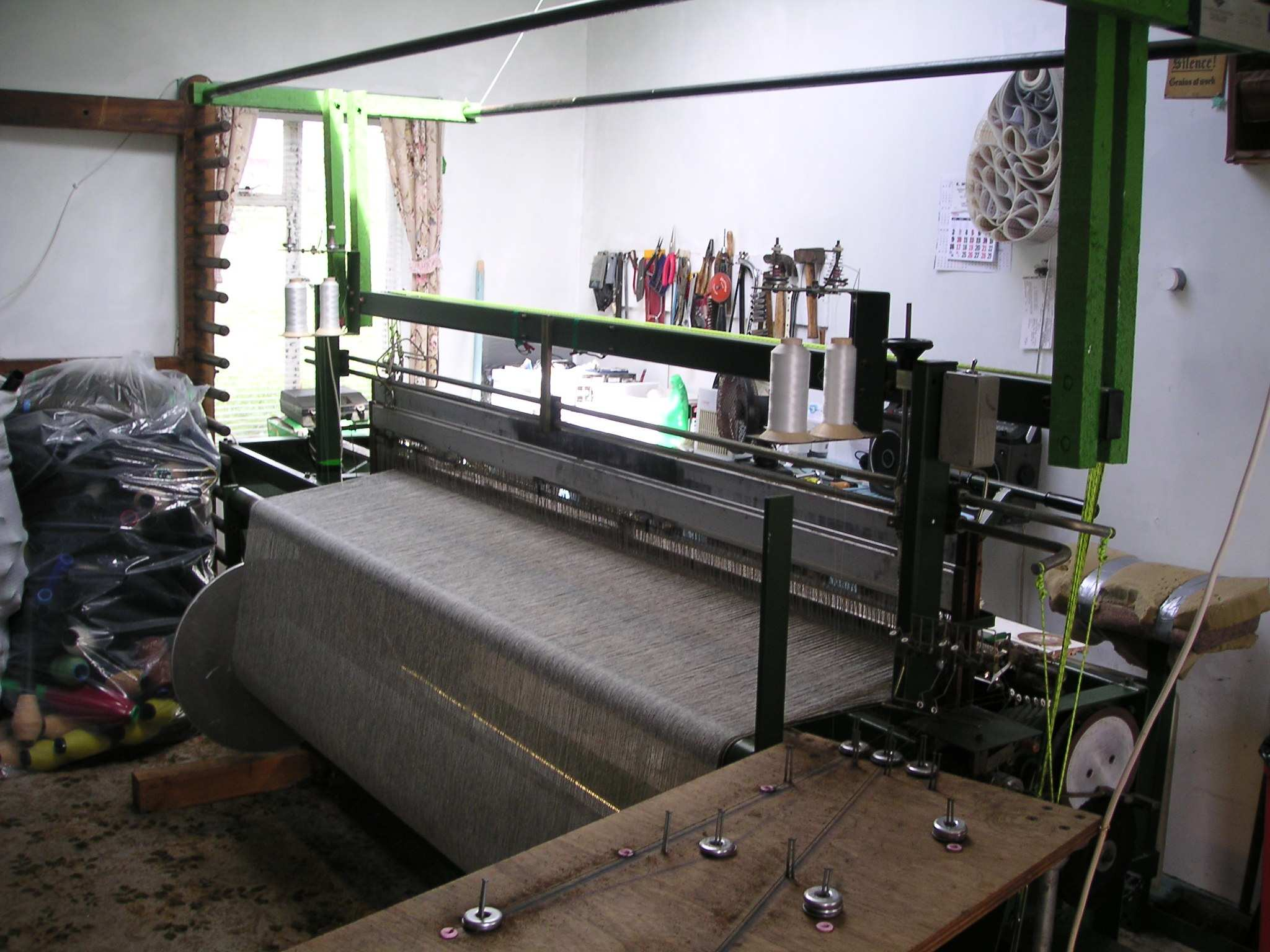 Harris tweed loom Author: Wojsyl, 2004